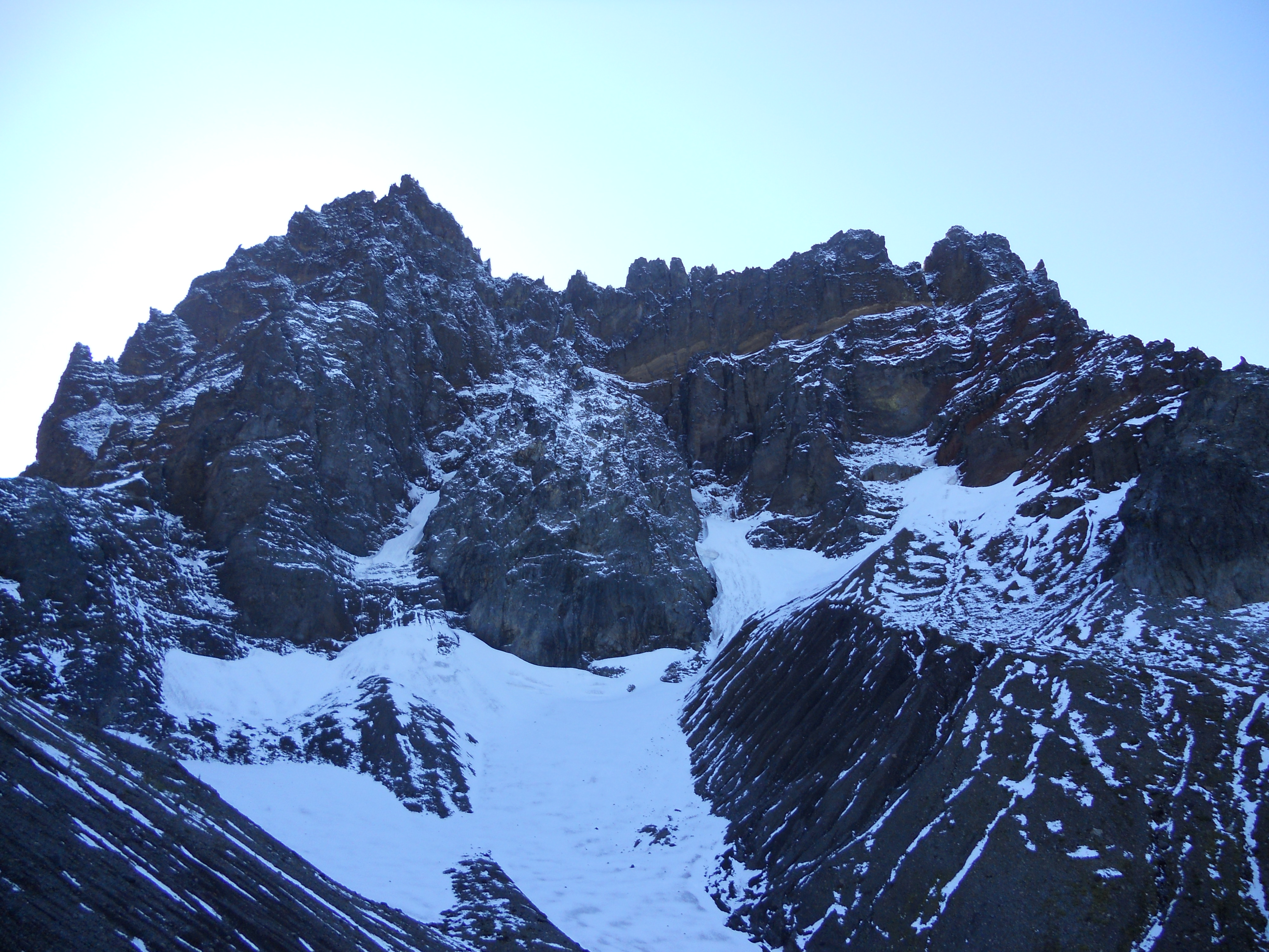 The north face of Three Fingered Jack in Oregon's Mount Jefferson Wilderness as seen from a trail nearby